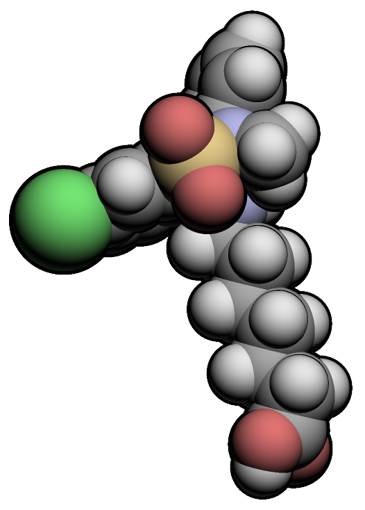 Molecular spacefill of tianeptine